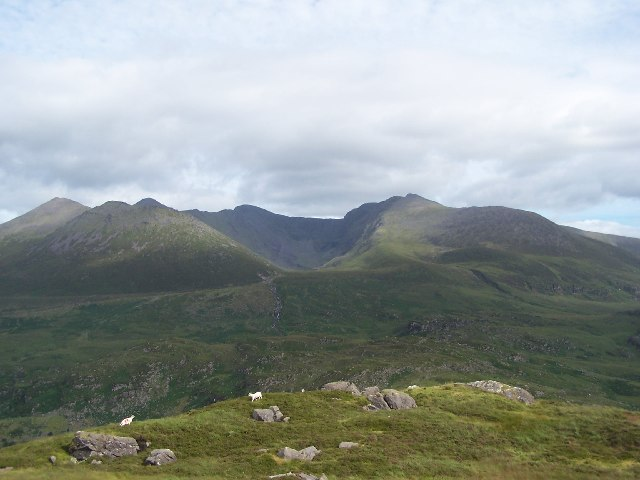 Carrauntoohil. Looking across the valley from just above Lough Acoose at Carrauntoohil.